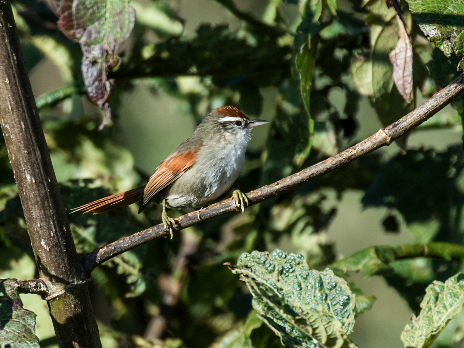 Line-cheeked Spinetail (ssp. baroni) from Pampa del Toro, Cajamarca, Peru.